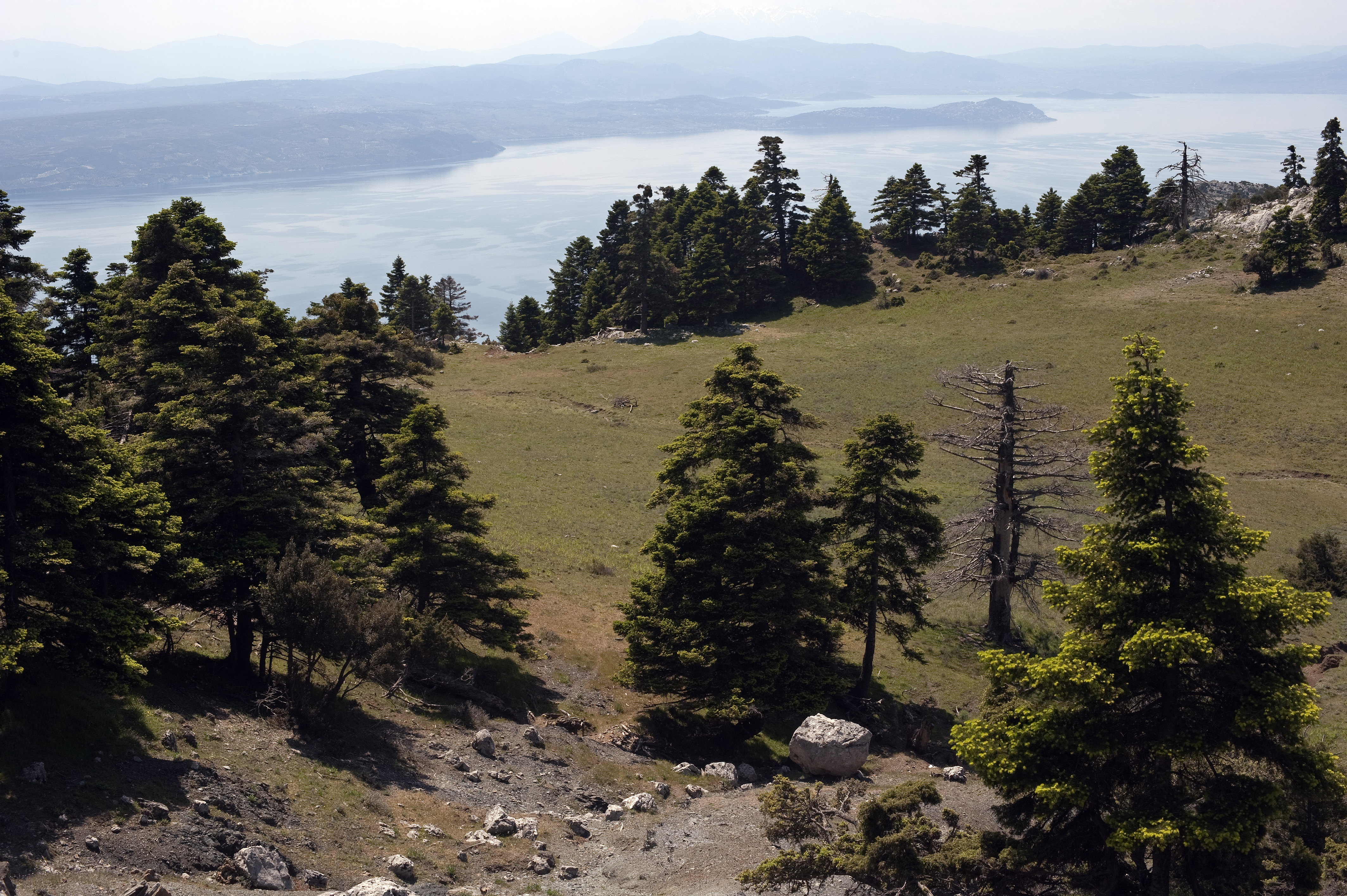 Kantili mountain, Evia island, Greece.